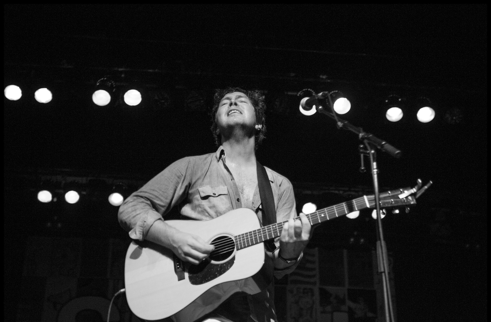 Matt Wertz Live